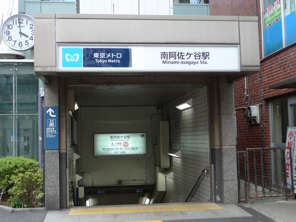 Entrance 2a of Minami-Asagaya Station on the Tokyo Metro Marunouchi Line in Tokyo